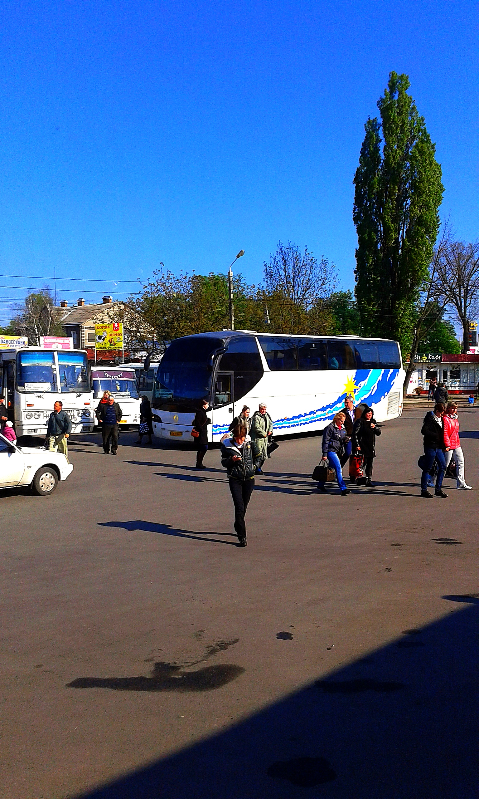 (1) MODERN BUS AT WESTERN BUS STATION IN CITY OF VINNYTSIA STATE OF UKRAINE PHOTOGRAPH BY VIKTOR O LEDENYOV 20160427